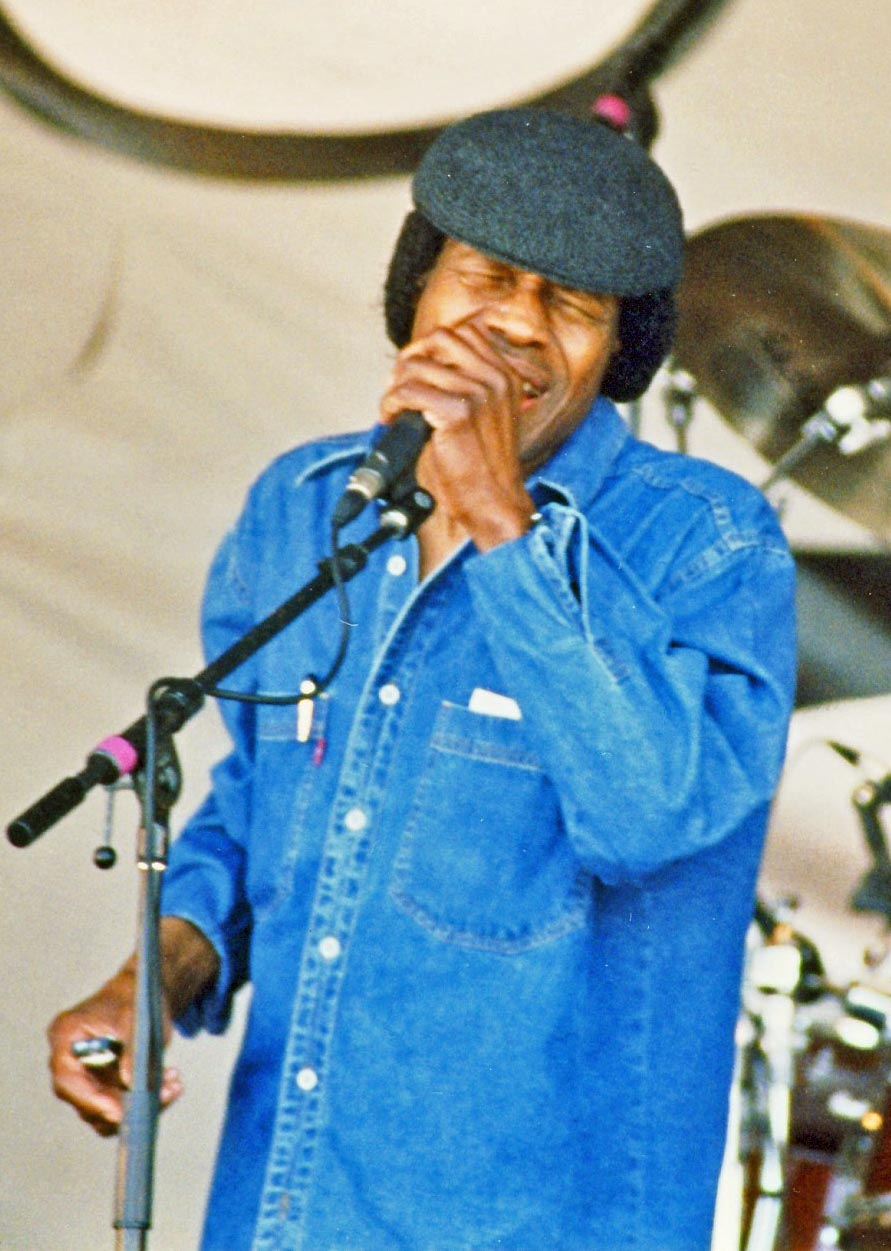 Junior Wells at the New Orleans Jazz & Heritage Festival (Ray Ban Stage)